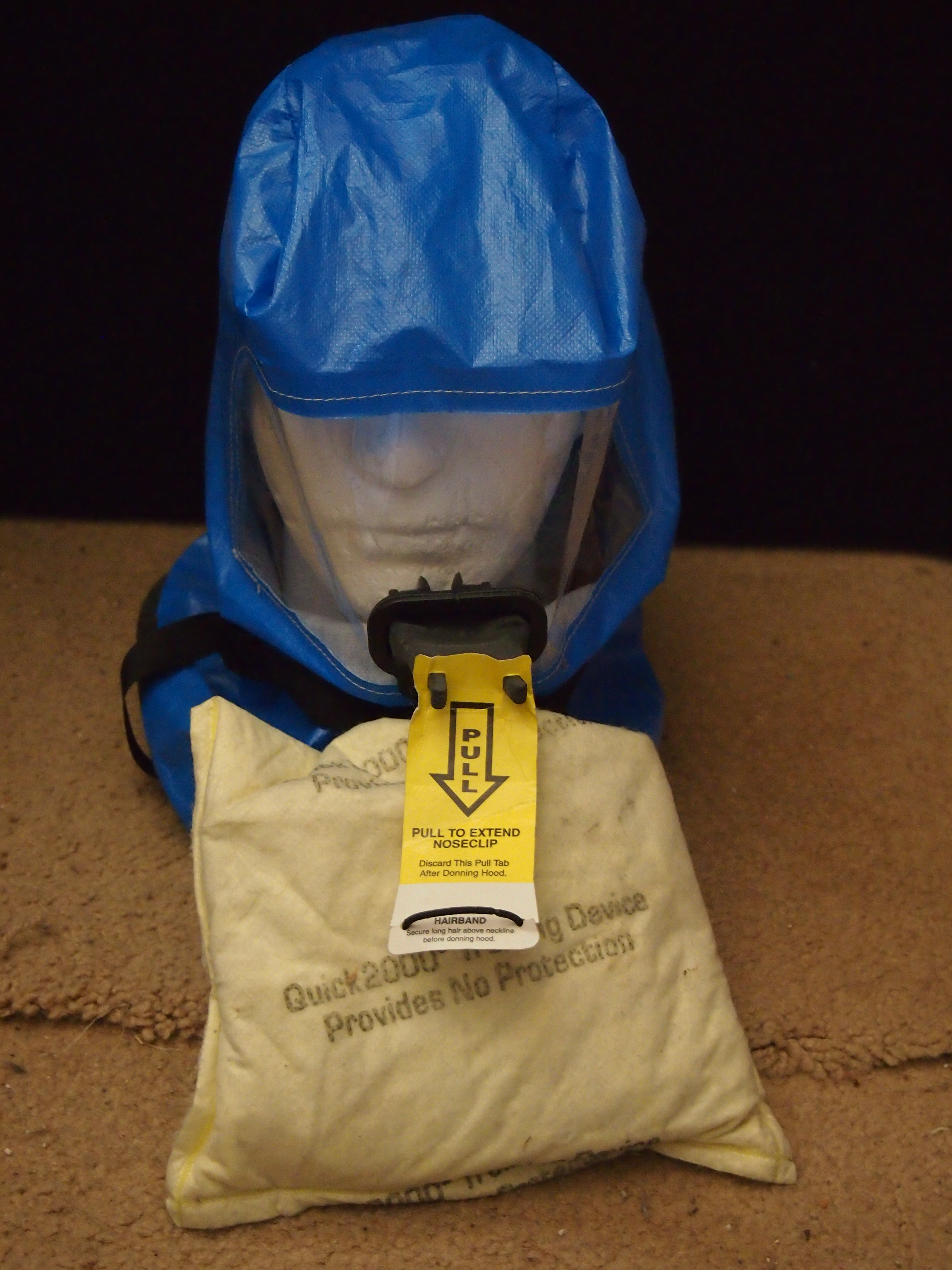 smoke hood training model with filter